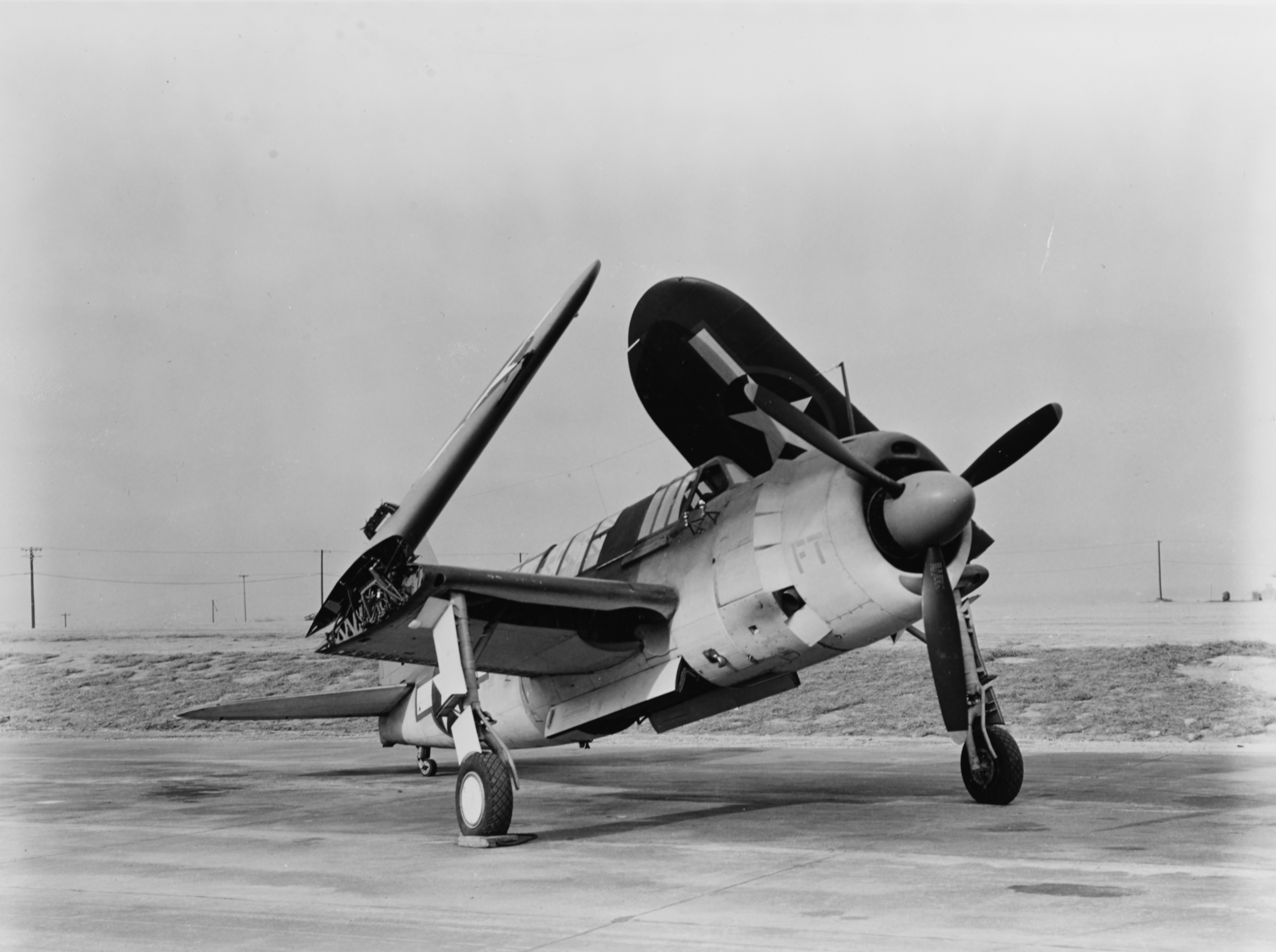 A U.S. Navy Brewster SB2A-3 Buccaneer (BuNo 00885) at the Naval Air Test Center Patuxent River, Maryland (USA), on 22 November 1943. Note the folded wings and the open bomb bay.